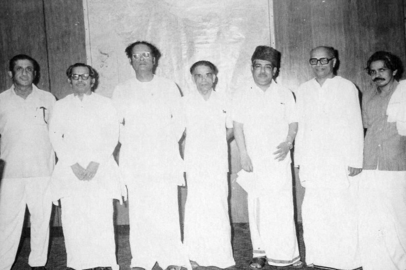 Kerala Ministers from 1979 CH Mohammed Koya Ministry